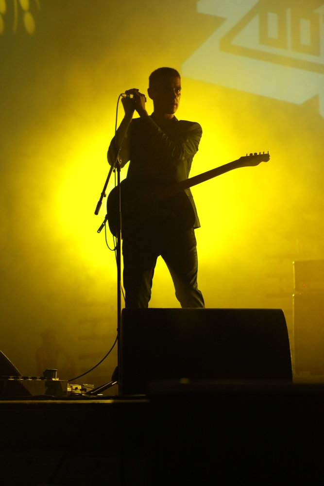 Johnny Blake of Zoot Woman, performing live in 2009